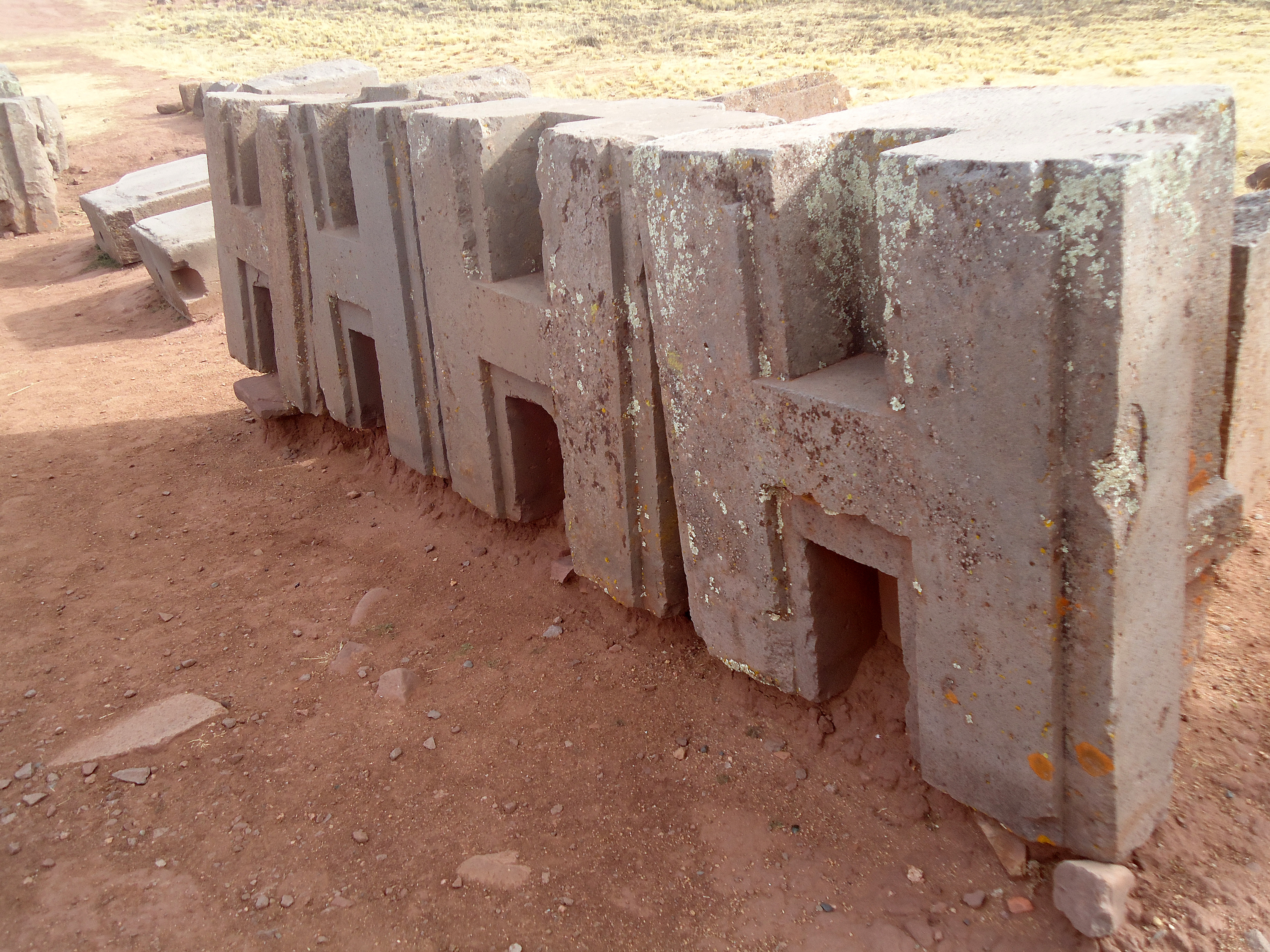 H profile wall - 4 bricks. Massive stone blocks (Andesite' Diorite) made of visible knowledge of geometry. Characteristic angles made ​​planes relationship to each other, are matched with exceptional precision. On all photographs of massive blocks of traces of ritual repainting? They may be signs of weathering, especially Andesite (then painted). Official publications In Puma Punku such details are ignored! See example in Wikpedia: Weathering of basalt in tropical climate (Philippines)